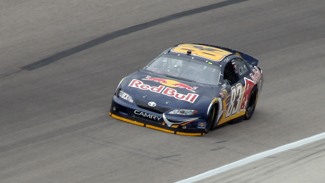 Brian Vickers' NASCAR car at the NEXTEL Cup race at Texas